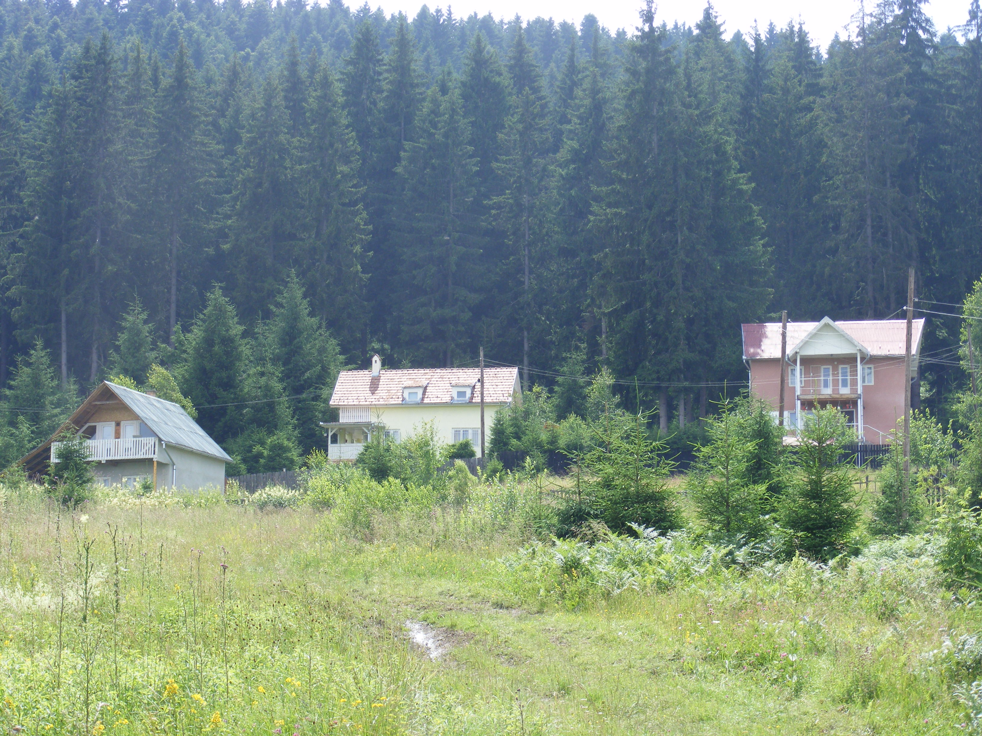 Houses in Szécseny, part of Csíkszereda, Transsilvany.